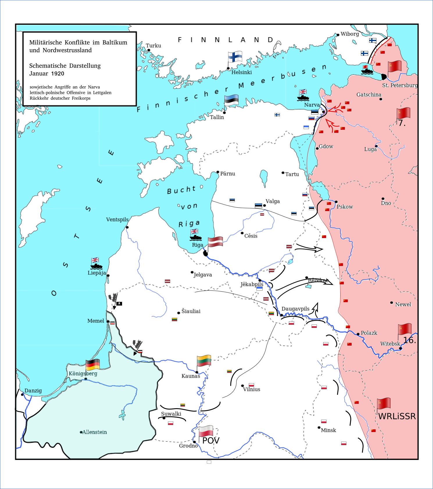 map of armed conflicts in the Baltics and North-West-Russia January 1920